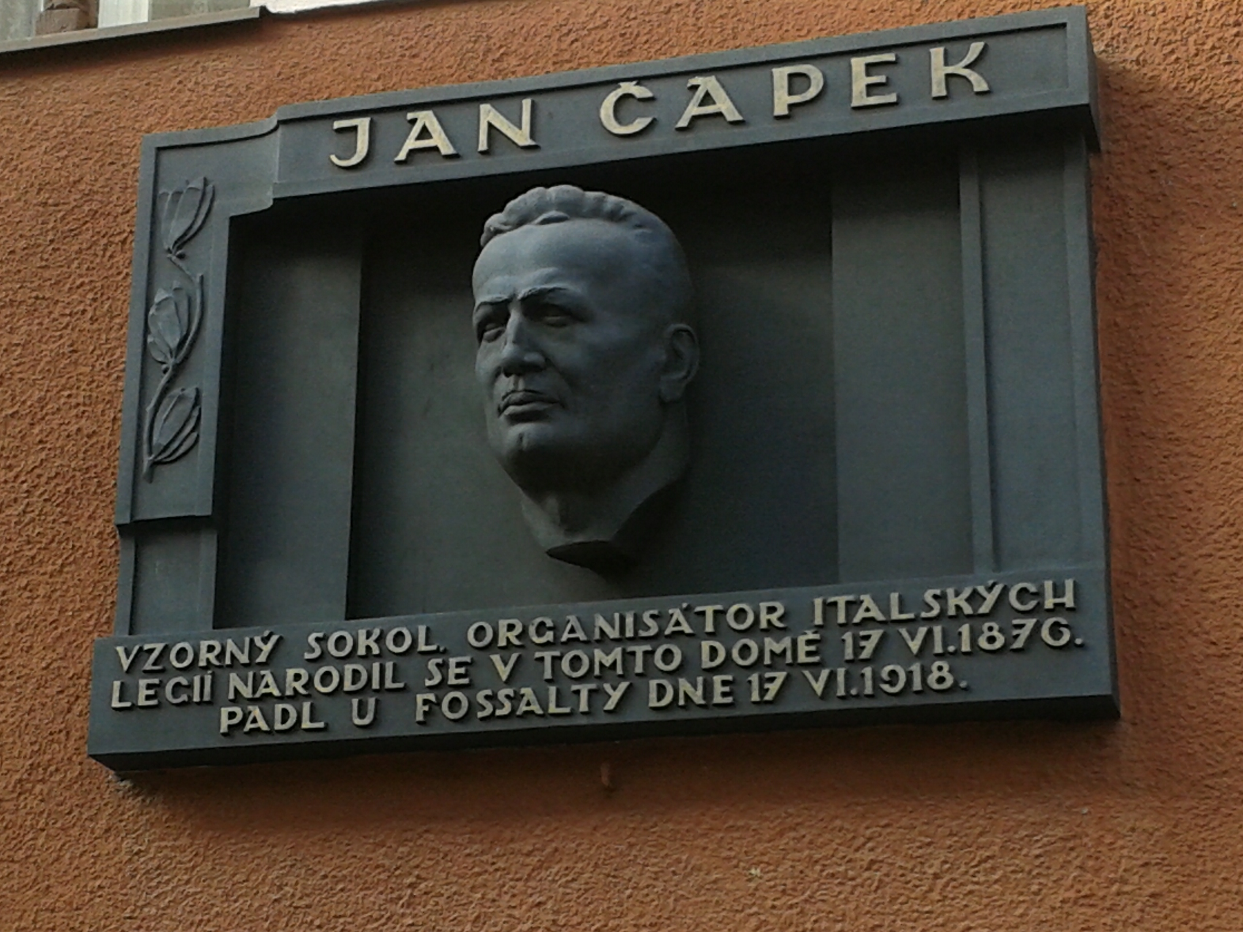 Commemorative plaque dedicated to Czech legionare Jan Čapek (1876-1918) situated on the house. Address: 176/5 Čapek street, 140 00 Praha 4 - Michle, Czech Republic. Publicly accessible memorial plaque was unveiled on June 12 1926. It is the work of czech sculptor Jaroslav Hruška.